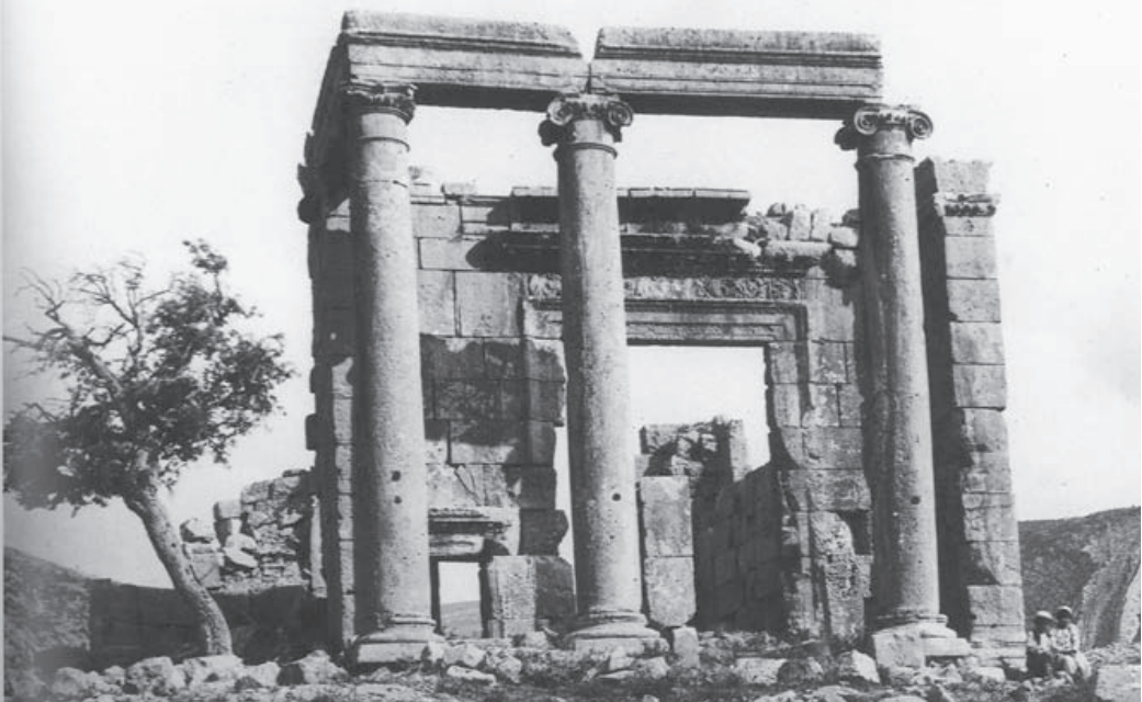 Photograph of the Bziza temple taken in 1894 by Henri Lammens(1862 – 1937)